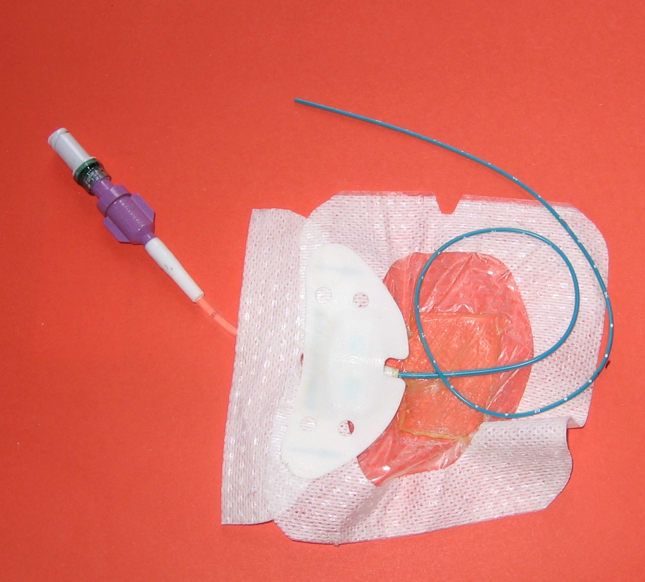 Peripherally inserted central catheter (PICC or PIC line) extracted from the left arm of a patient after use for two months. (The right arm where a PICC normally would be applied was not used because the veins there were too thin to allow proper insertion.) The plastic "statlock" shield is attached at the location of entry through the skin to fixate the tube. The PICC was used for daily fluconazole therapy by a registered nurse for home health care and was inserted in a peripheral vein in the left upper arm by anaesthetists of the St. Antonius Ziekenhuis Utrecht, The Netherlands (hospital) in 2018. The total length of this PICC line was 53 cm, the diameter was approximately 1,0 mm and the height of the slim patient 1,72 m.